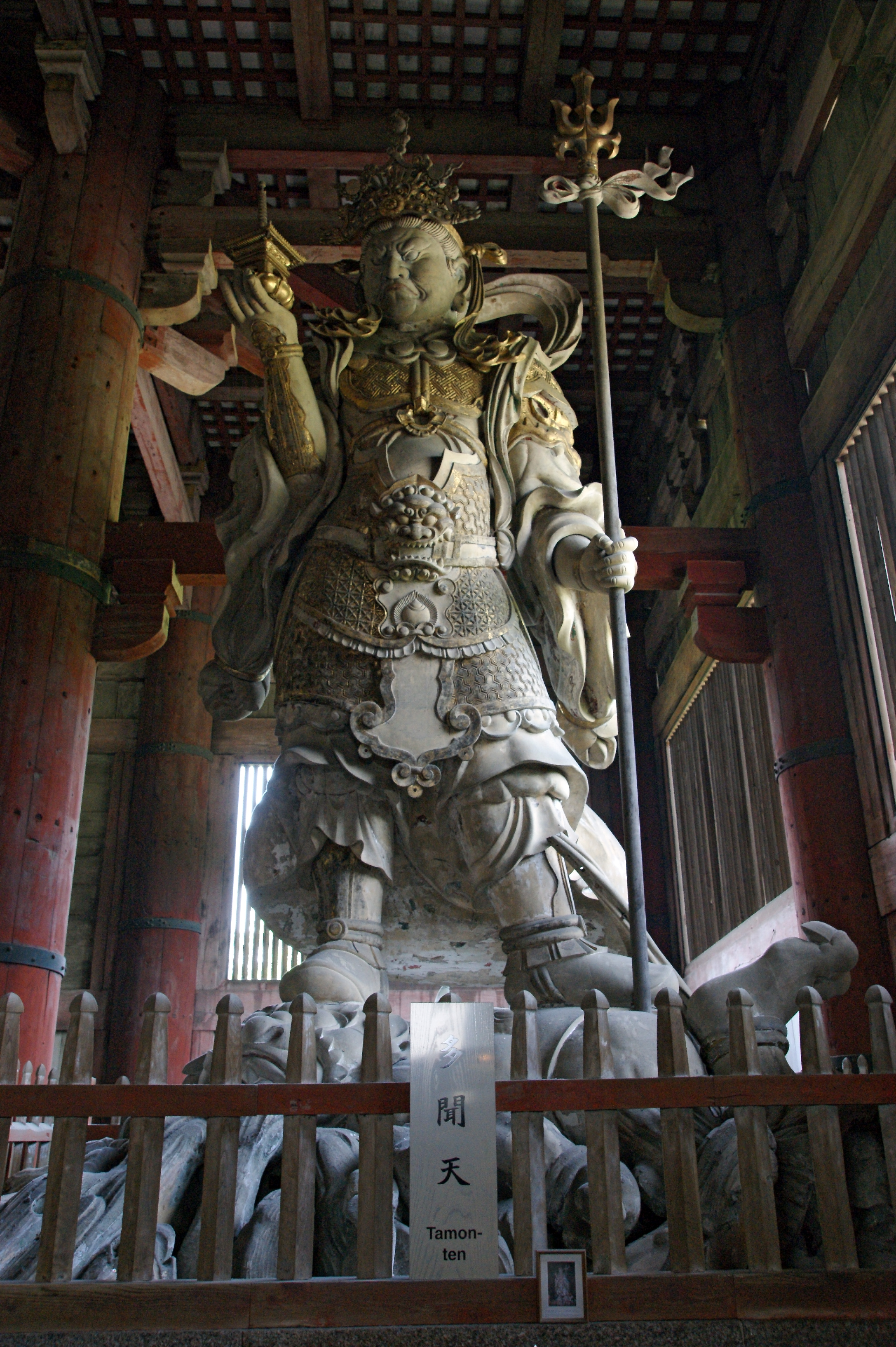 Todaiji in Nara, Nara prefecture, Japan